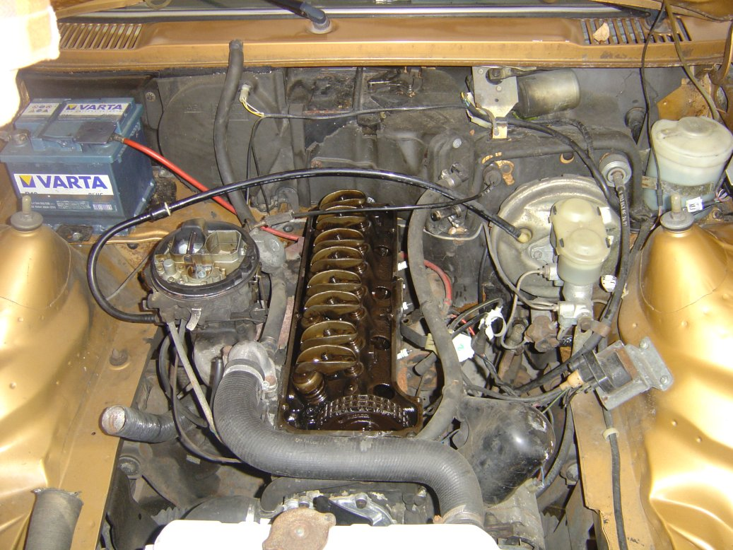 Picture of a CIH Engine of the type 19S with 90HP. Built in an Opel Manta B. Valve cover was removed to the the typical rocker arms.